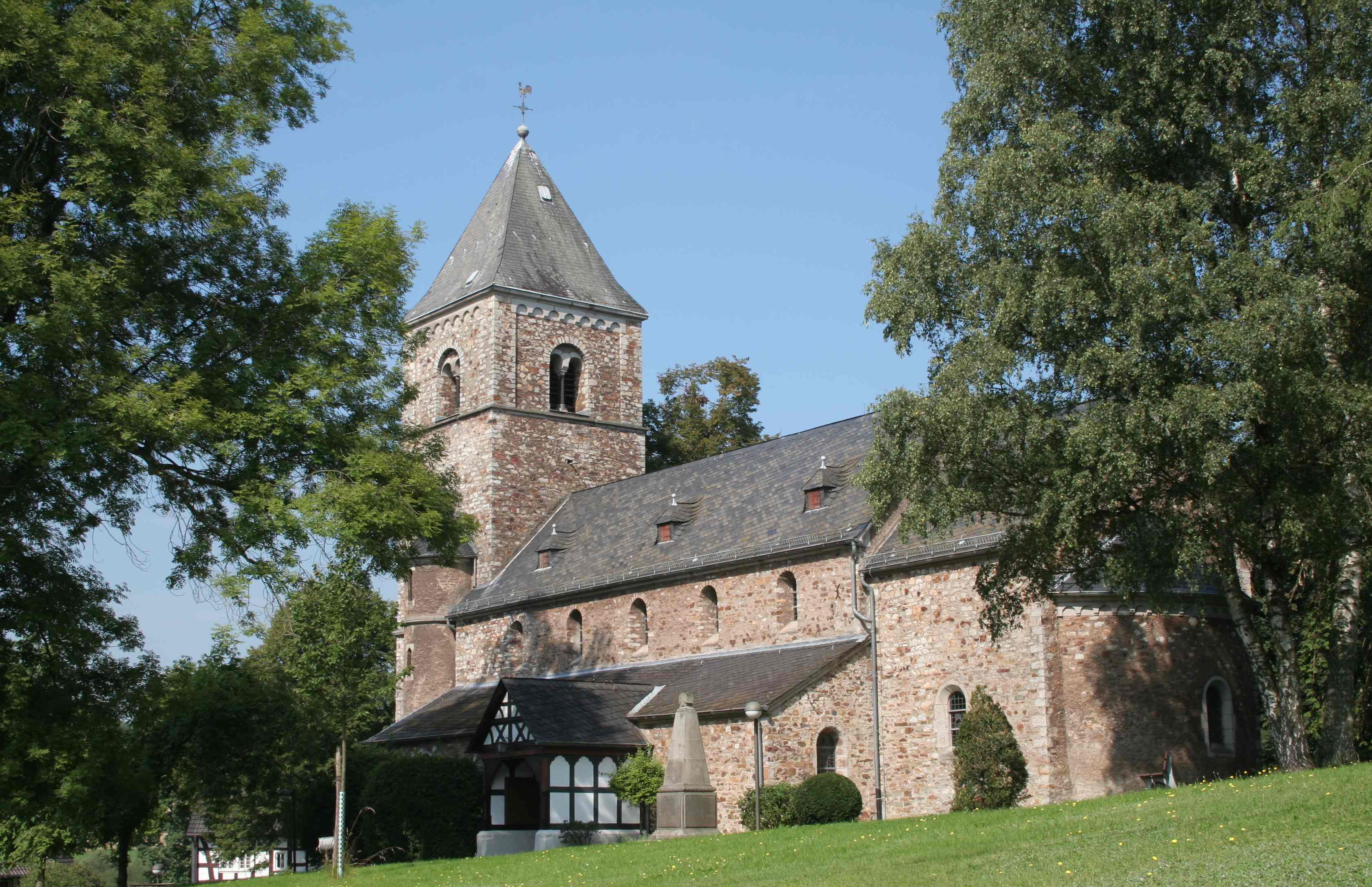 Church of Birnbach